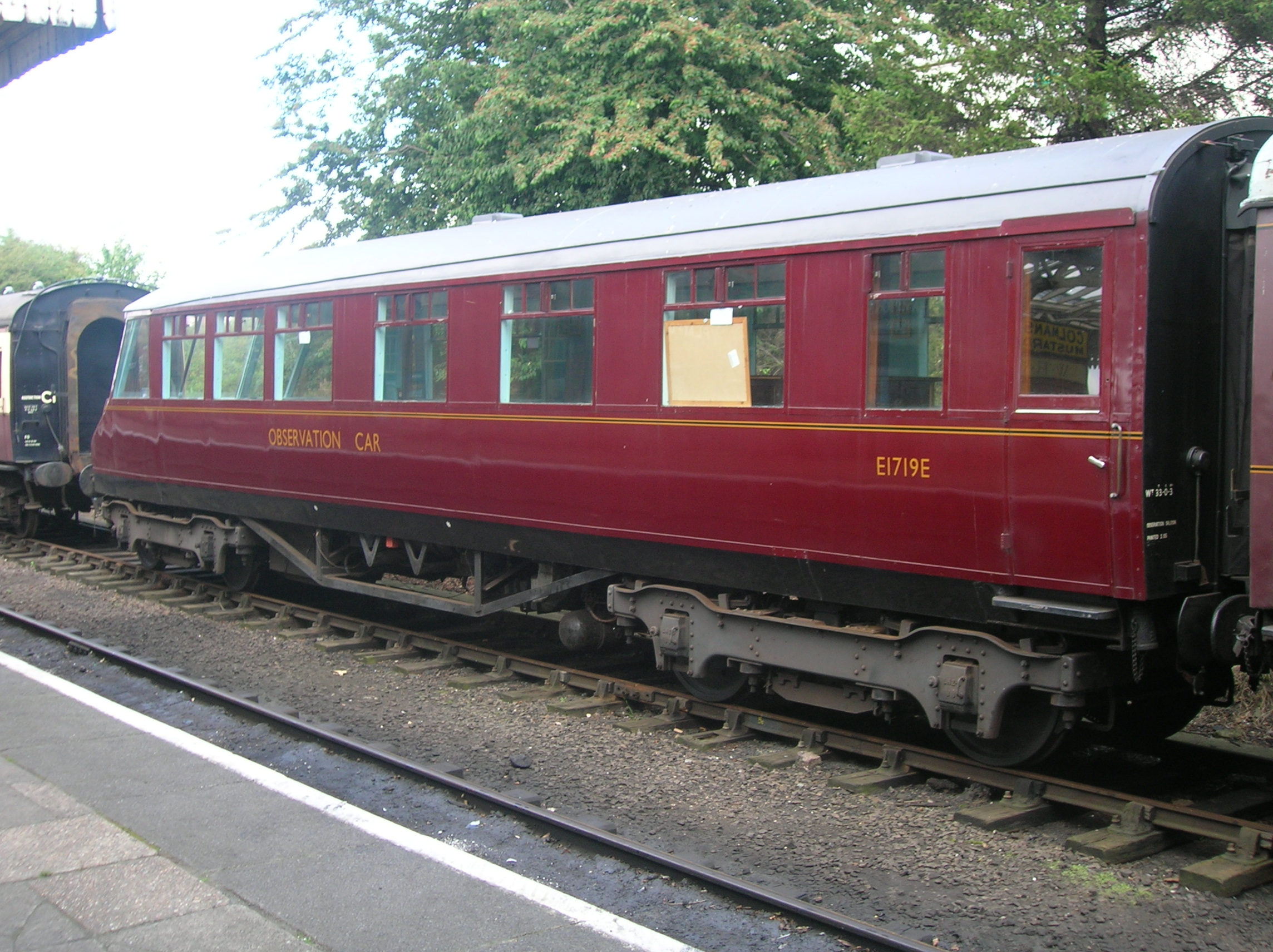 This is a new version of an LNER Teak Bevertail Saloon coach for the page List of Great Central Railway locomotives.